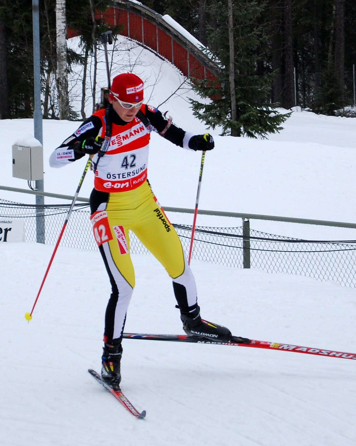 Slovakian biathlete Janka Gereková during the World Championships in Östersund 2008.